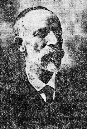 Allen Gee, British trade unionist, in 1910. Chair of the General Federation of Trade Unions, former chair of the National Executive Committee of the Labour Party.